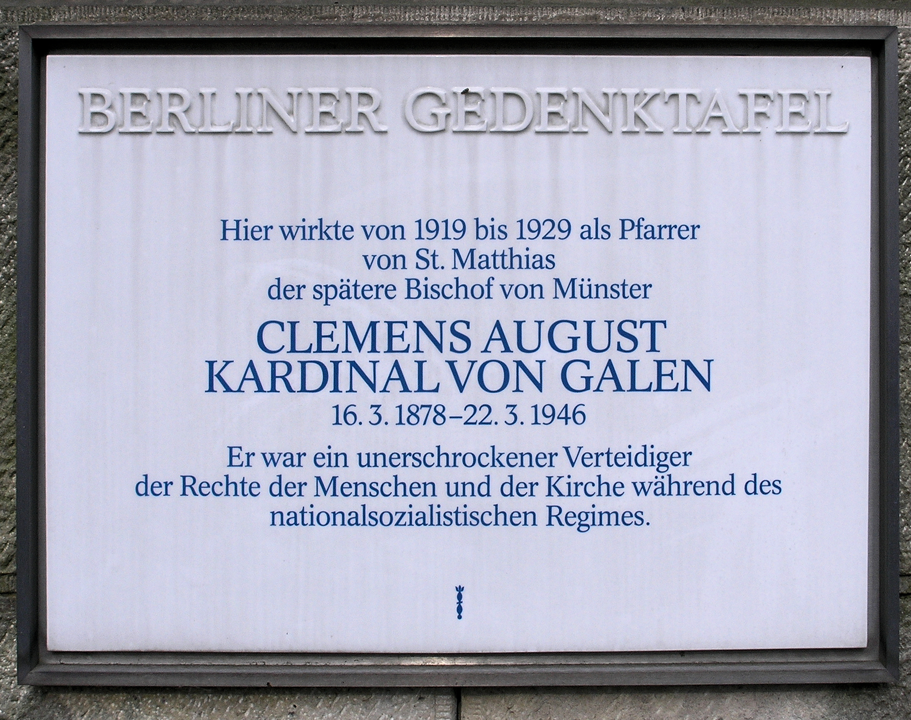 Berlin memorial plaque, Clemens August Graf von Galen, Winterfeldtplatz, Berlin-Schöneberg, Germany